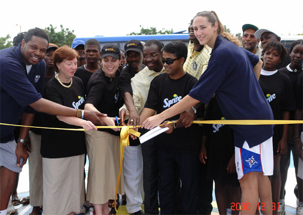 Pictured [from left to right] in Angola, NBA legend Sam Perkins, Ambassador Cynthia Efird, Deputy Assistant Secretary Carol Thompson (holding scissors), representative from Viana Government, unidentified youth, and WNBA star Ruth Riley hold the yellow ribbon at the ribbon-cutting ceremony for new basketball courts donated with the help of the National Basketball Association (NBA), the Women's National Basketball Association (WNBA), Sprite and PAS Luanda.